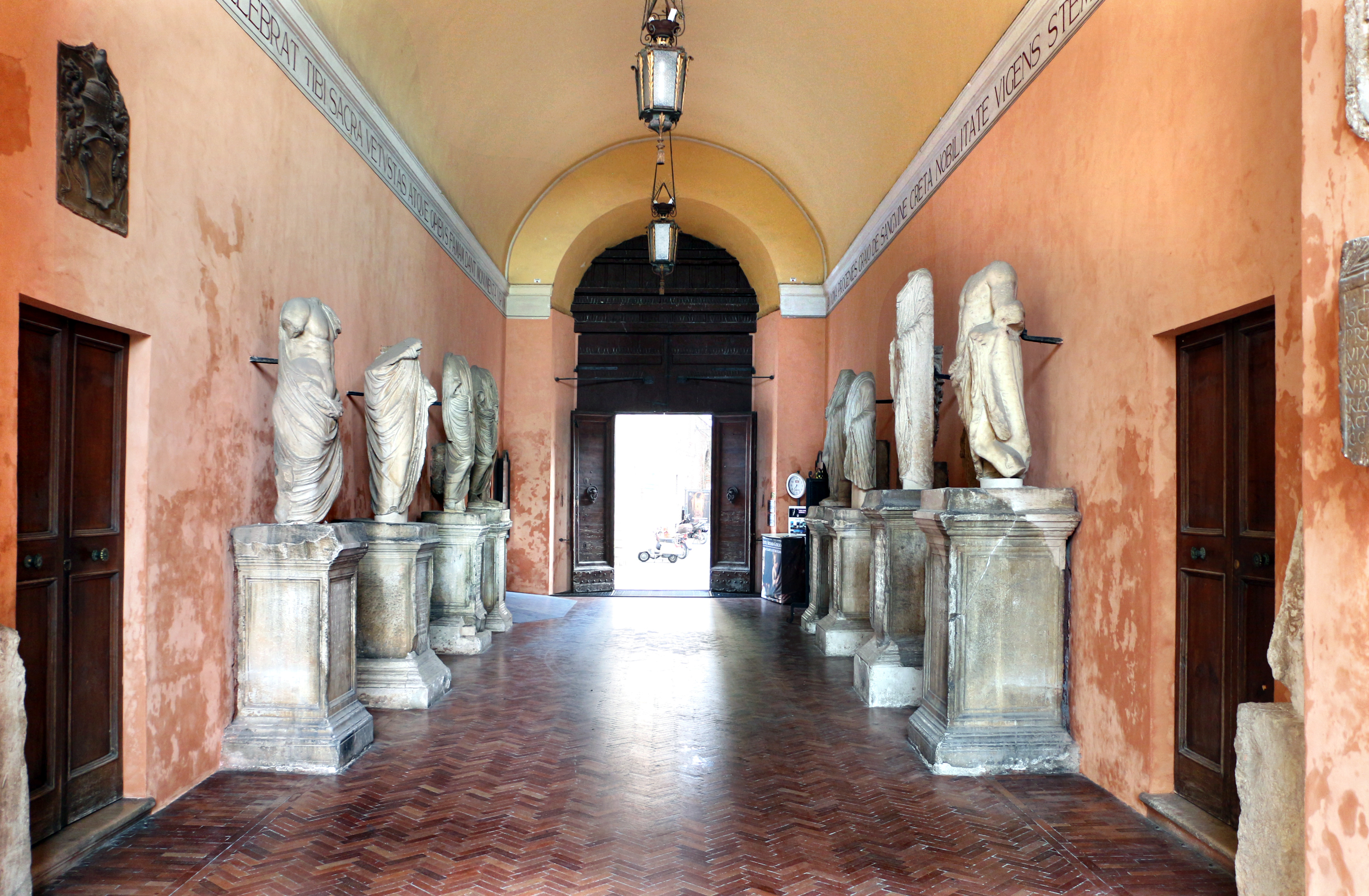 Palazzo Comunale (Osimo)